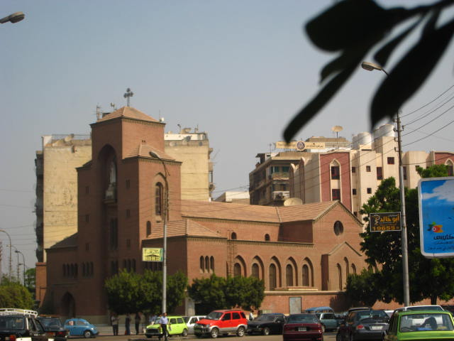 Basilica of St. Fatima Church, St. Fatima Square, Heliopolis, Cairo